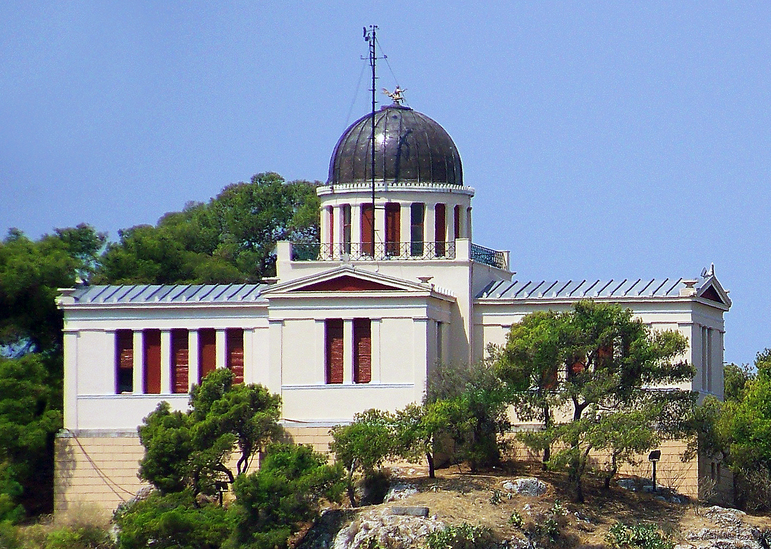 National Observatory of Athens Original photo work from (original photo has the Attribution CC Licence)